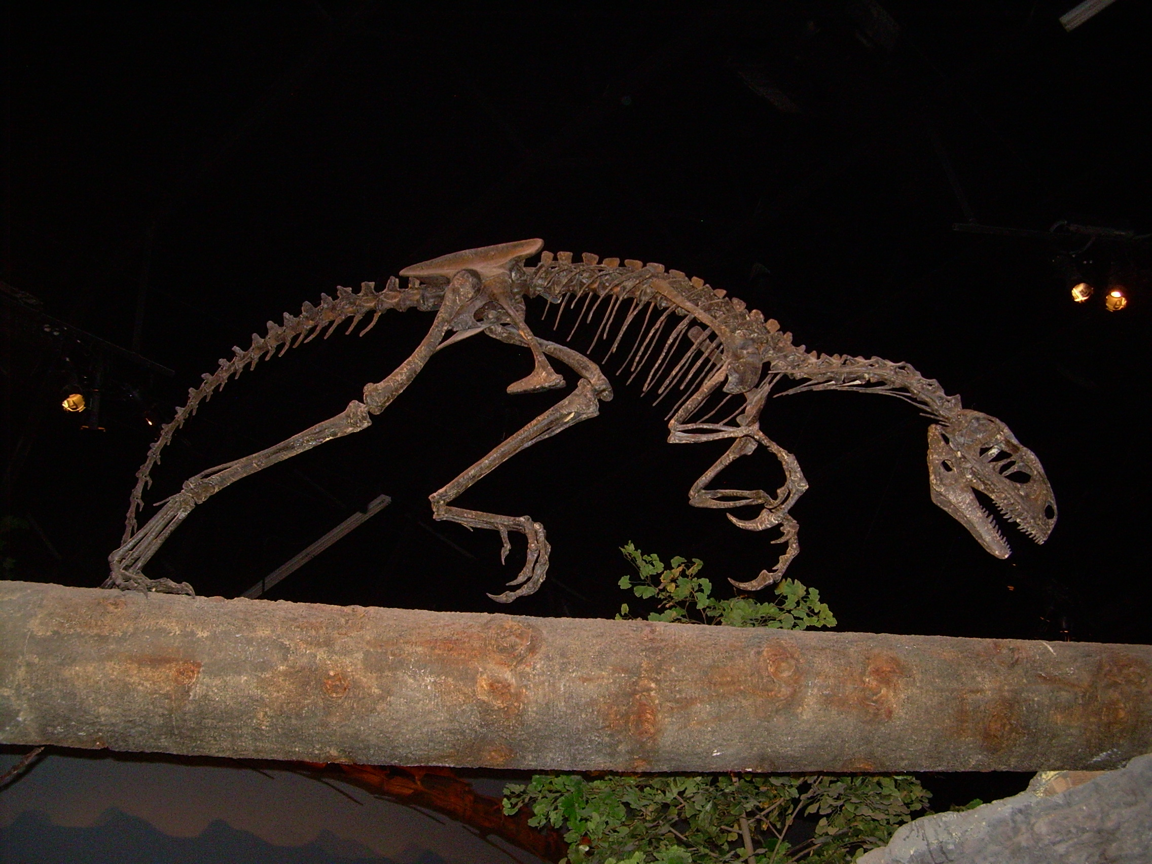 Photograph of a fossil cast of a Tanycolagreus topwilsoni skeleton taken at the North American Museum of Ancient Life.